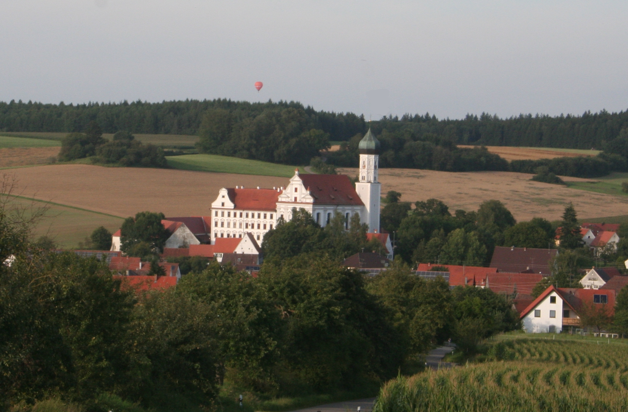 look at the former Edelstetten Abbey from west